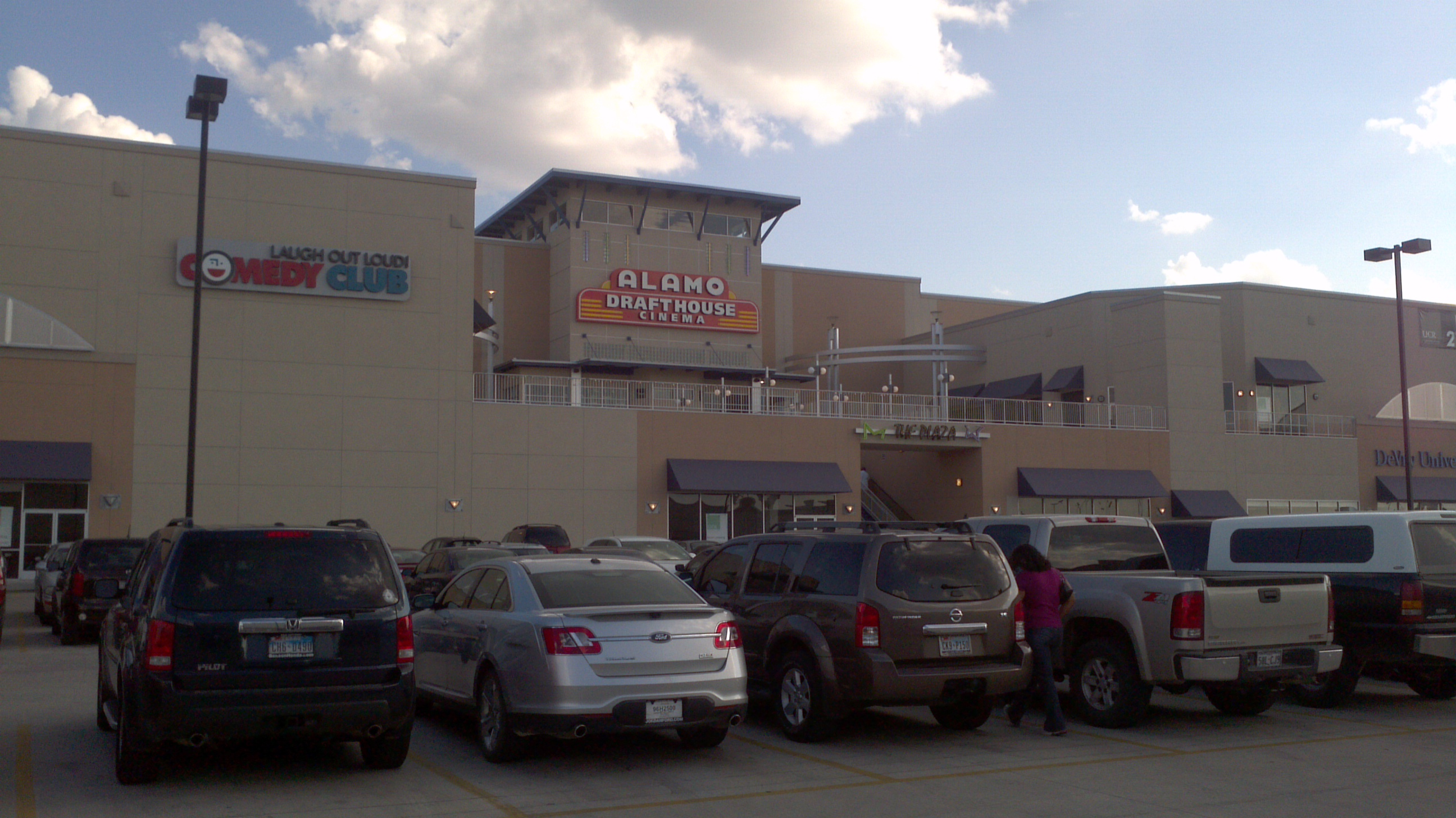 NorthPark Mall, San Antonio, TX